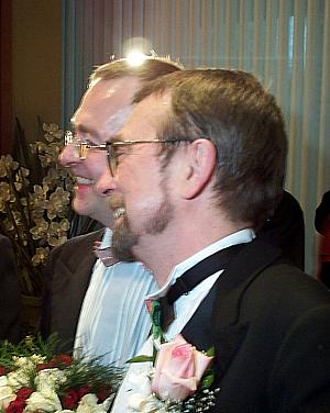 Michael Hendricks (right) and René Leboeuf, photo showing both their faces. Taken at their wedding (the first same-sex marriage in Quebec), 1 April 2004. Photo by Montrealais.